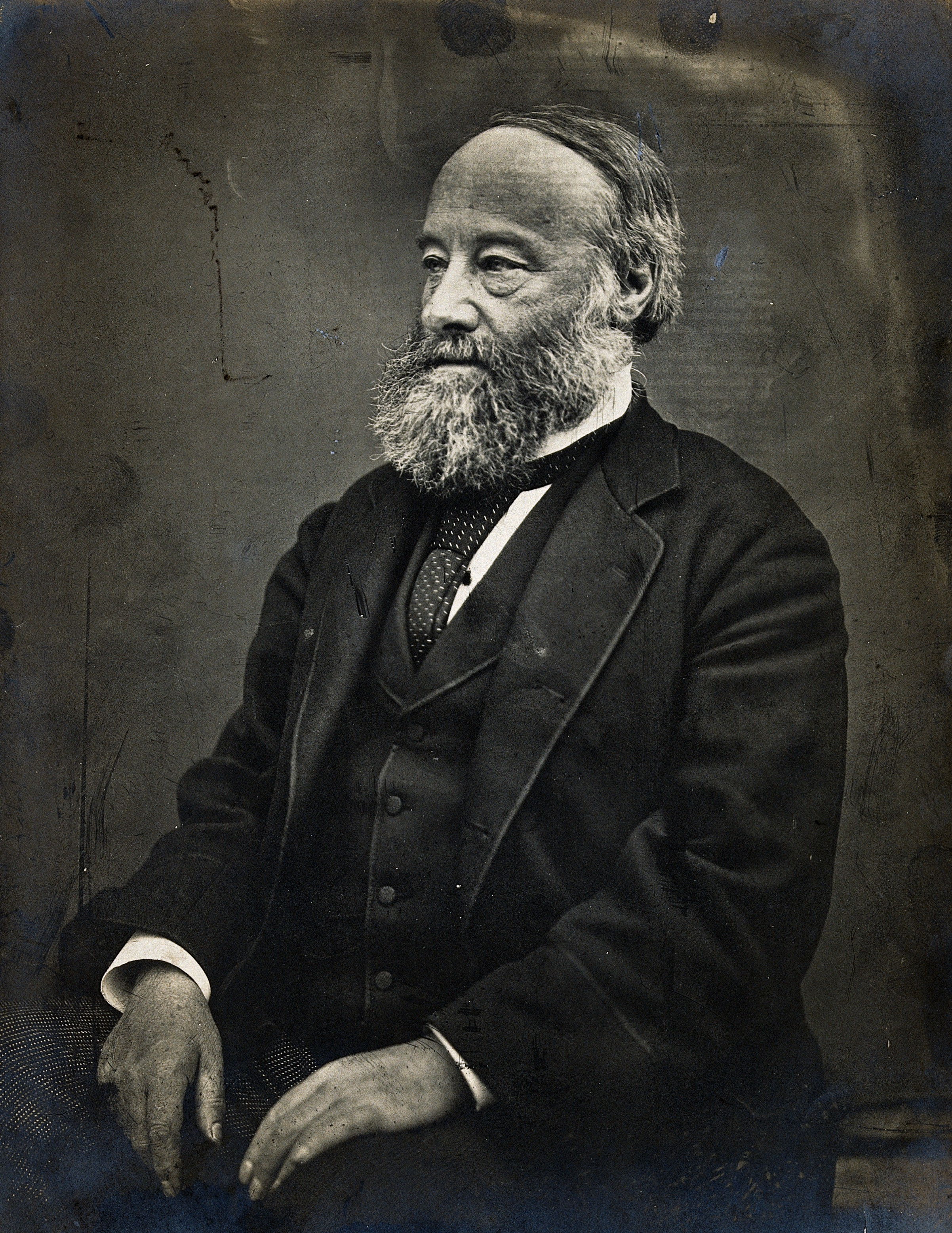 James Prescott Joule (1818-1889), seated, facing right. Photograph, c. 1890. Iconographic Collections Keywords: James Prescott Joule